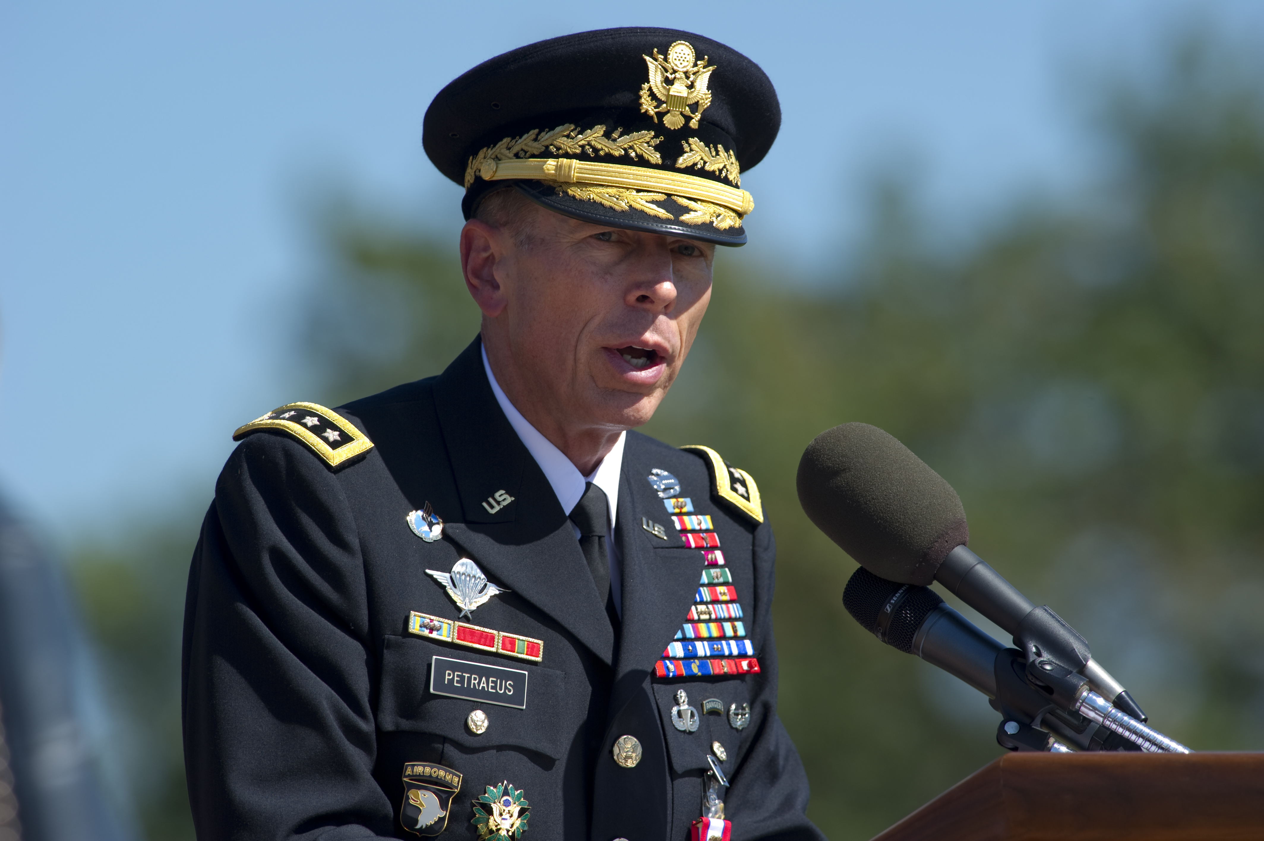 Army Gen. David H. Petraeus delivers remarks during his Armed Forces Farewell and retirement ceremony on Joint Base Meyer-Henderson Hall, Va., Aug. 31, 2011.